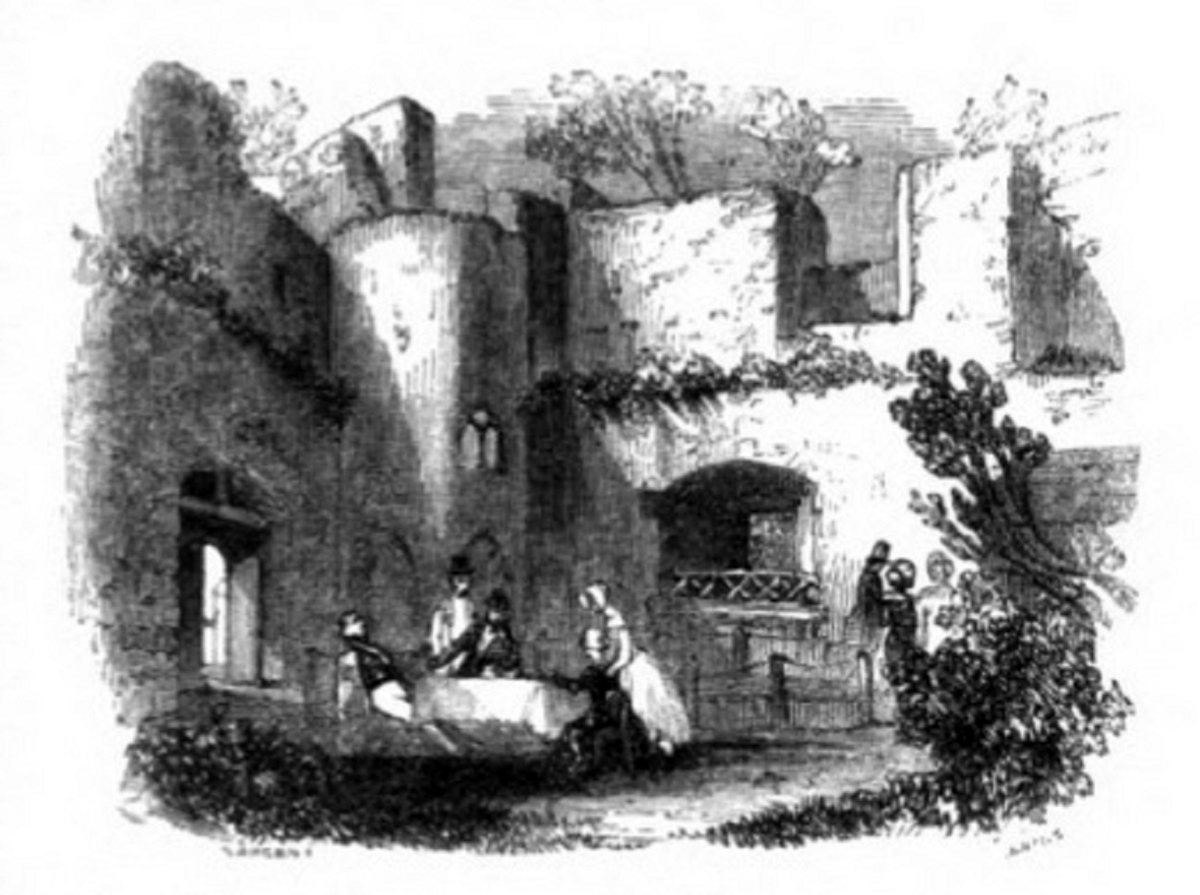 Picnic at Netley Castle, 1840s